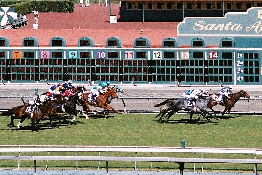 Goldikova bursts to the lead on the rail in the 2008 Breeders' Cup Mile